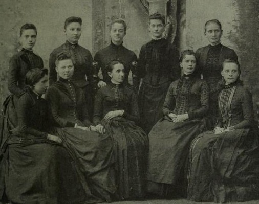 Philena McKeen, headmistress of Abbot Academy in Andover, Massachusetts, with graduates, in a photo from 1864.